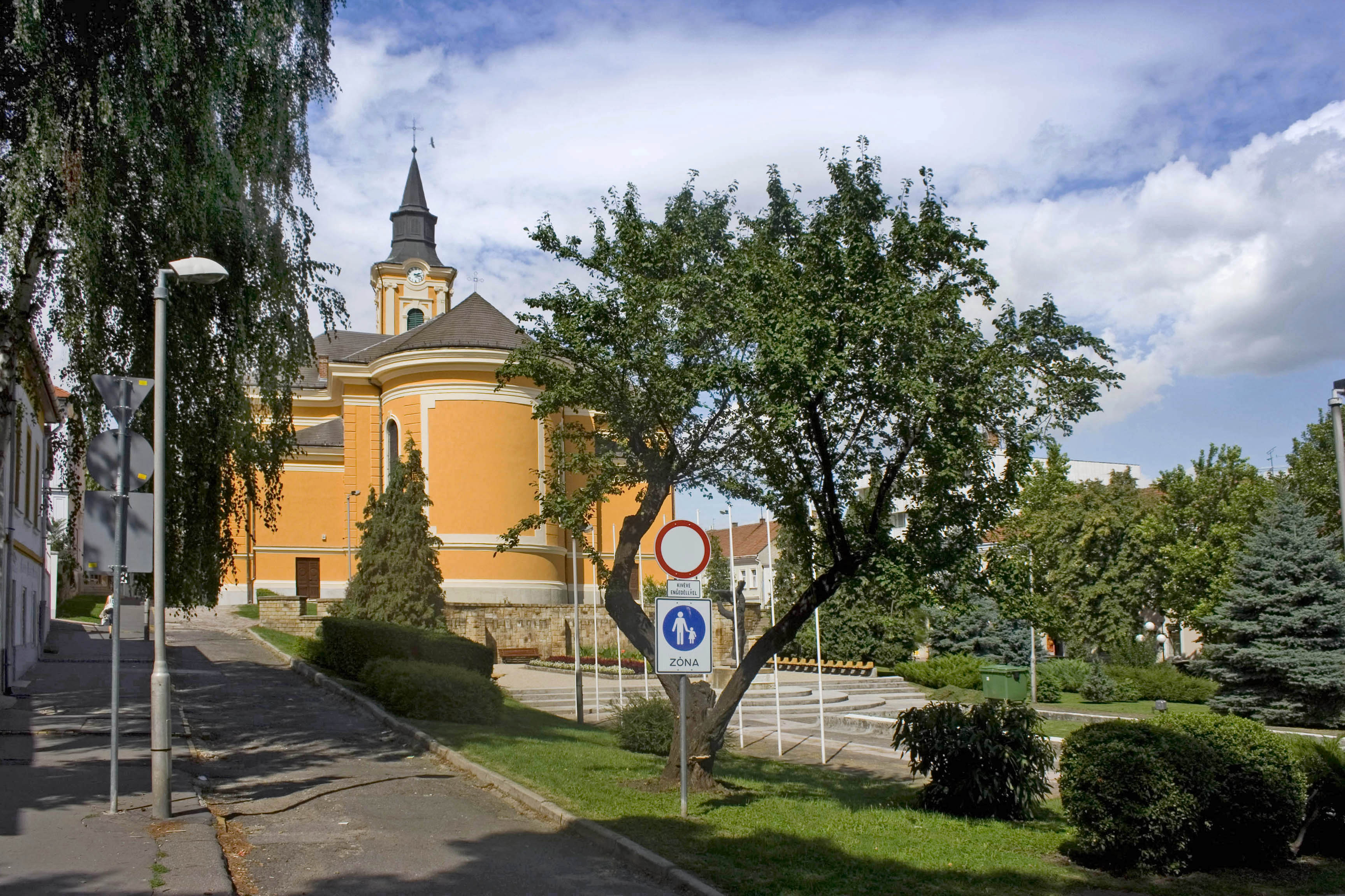 Hungary Satoraljaujhely - Heroes' Square and St Stephen's Church